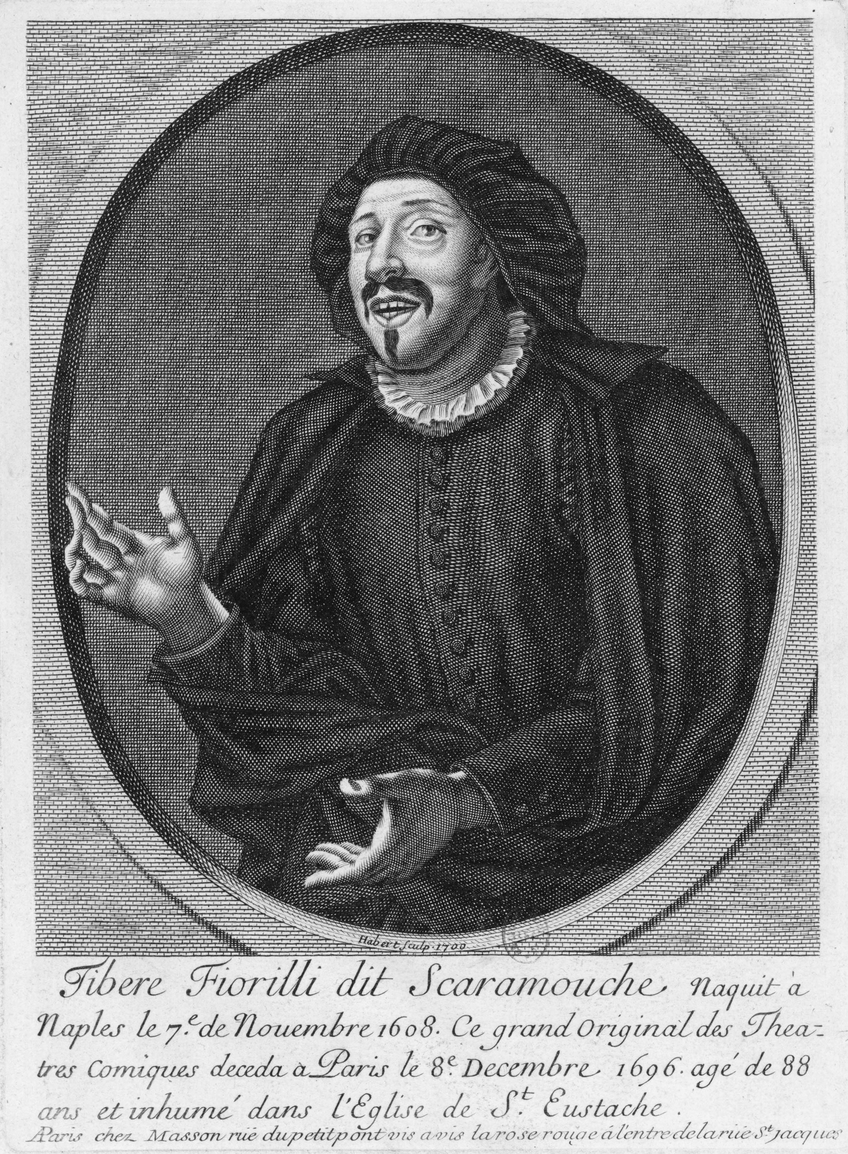 Tiberio Fiorilli (1608–1694), Italian actor of commedia dell'arte who developed the role of Scaramouche, particularly in France